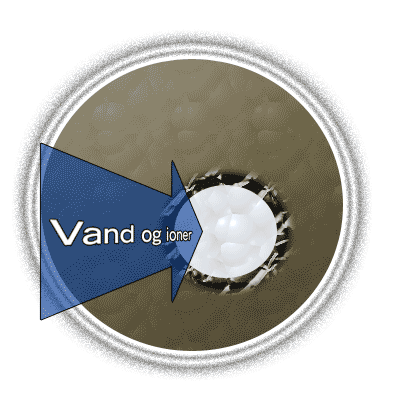 Perforin in precess of destroying an infected cell